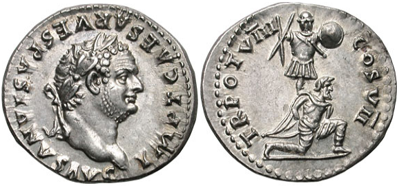 Titus, as Augustus, AR Denarius. June-July 79 AD. IMP T CAESAR VESPASIANVS AVG, laureate head right TR POT VIII COS VII, Jewish captive kneeling right in front of trophy of arms.